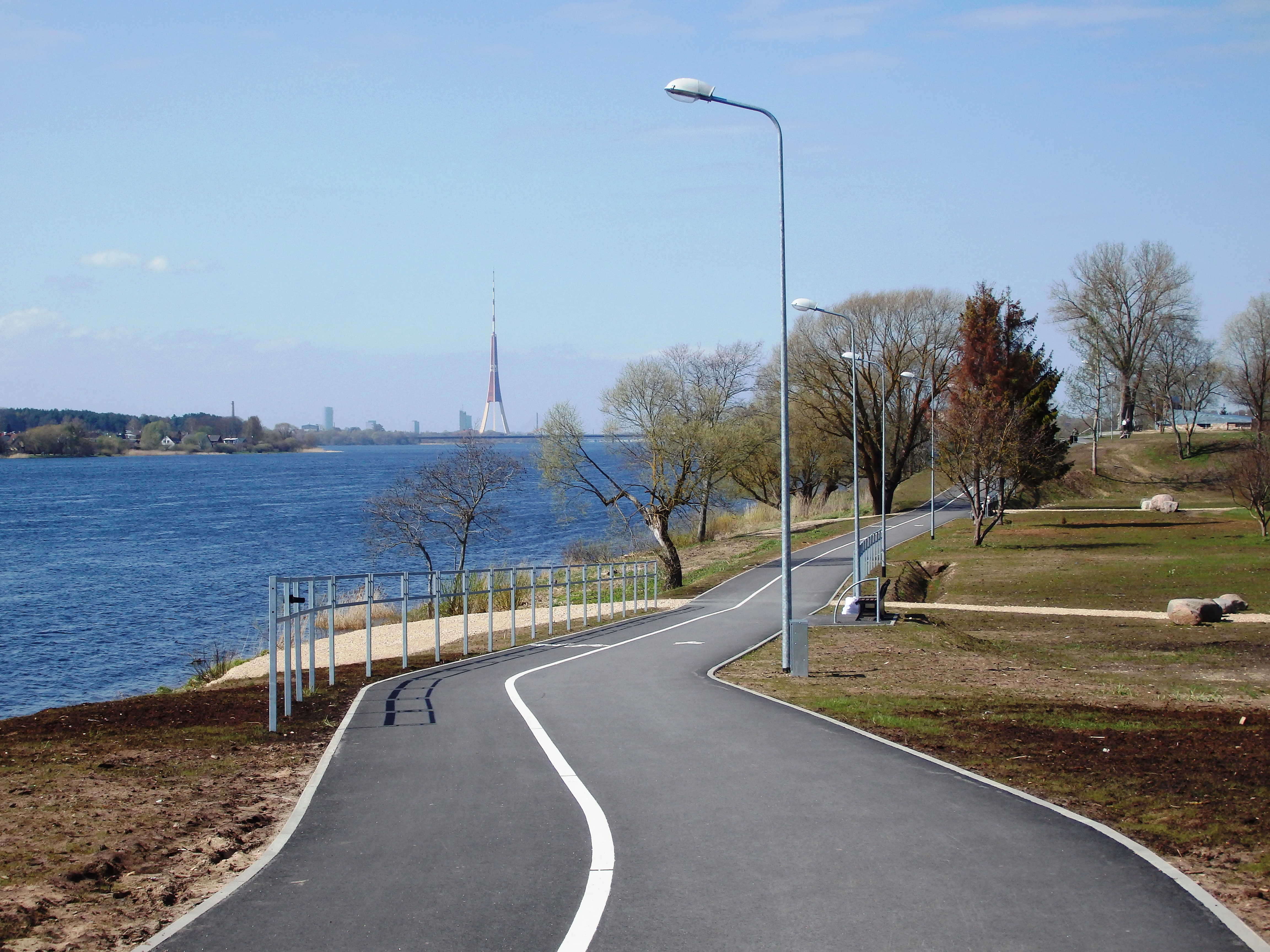 Bicycle path in Rumbula